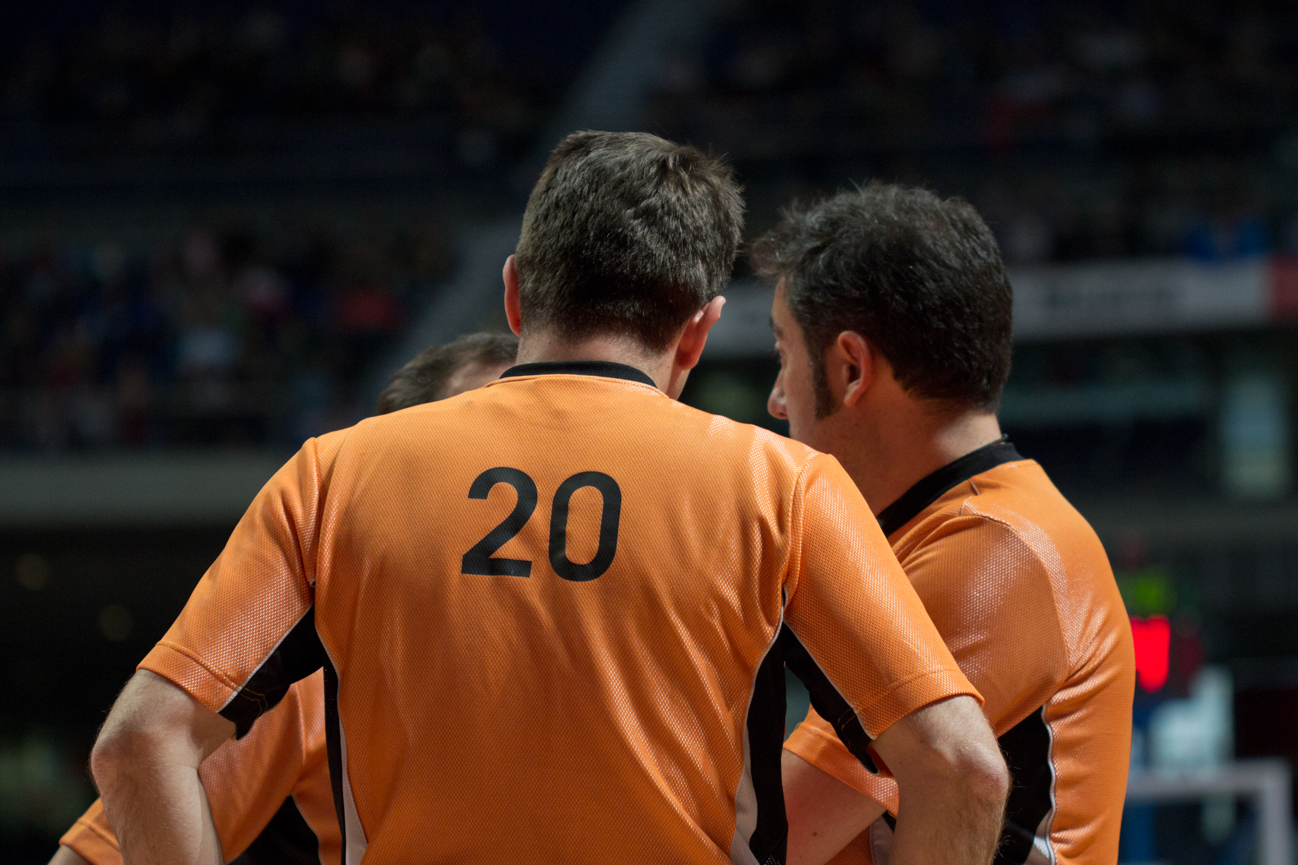 Basketball referees discussing during a game Estudiantes vs Unicaja Málaga.